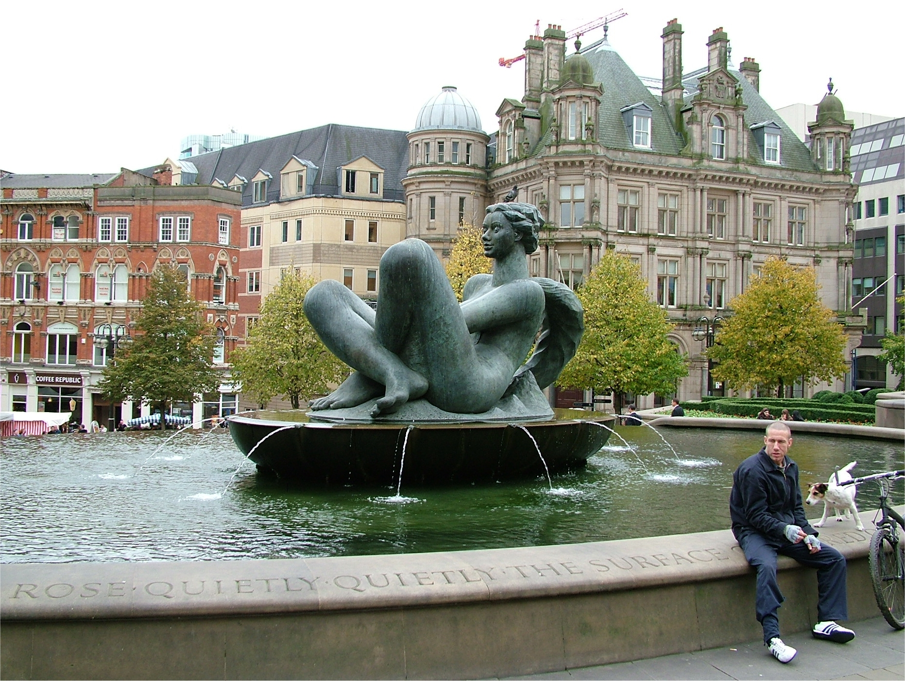 The River, nicknamed The Floozy in the Jacuzzi, a bronze fountain sculpture by Dhruva Mistry, 1993, in Victoria Square, Birmingham, England. Photo by and copyright Tagishsimon, 13th October 2005